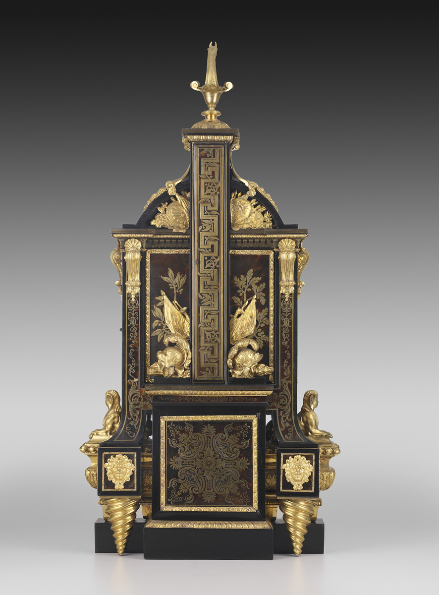 Isaac Thuret (1630 - 1706) Clockmaker (Attributed to) Jacques Thuret (1669 - 1738) Clockmaker (Attributed to) André-Charles Boulle (1642 - 1732) Casemaker (Attributed to) Marquetry-Veneered Barometer Clock, c. 1690-1700. ebony, tortoiseshell, and brass on walnut and oak 45 1/4 in. x 23 1/8 in. x 10 1/4 in. Bequest of Winthrop Kellogg Edey, 1999.